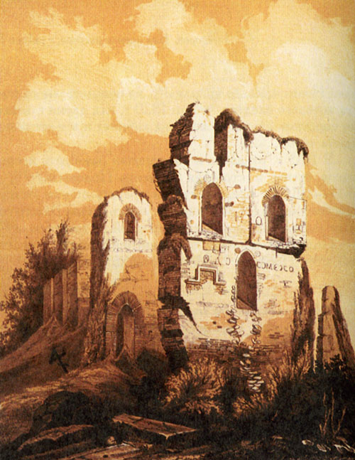 Church of Tithes, Kiev, ruins prior to 1828 rebuild